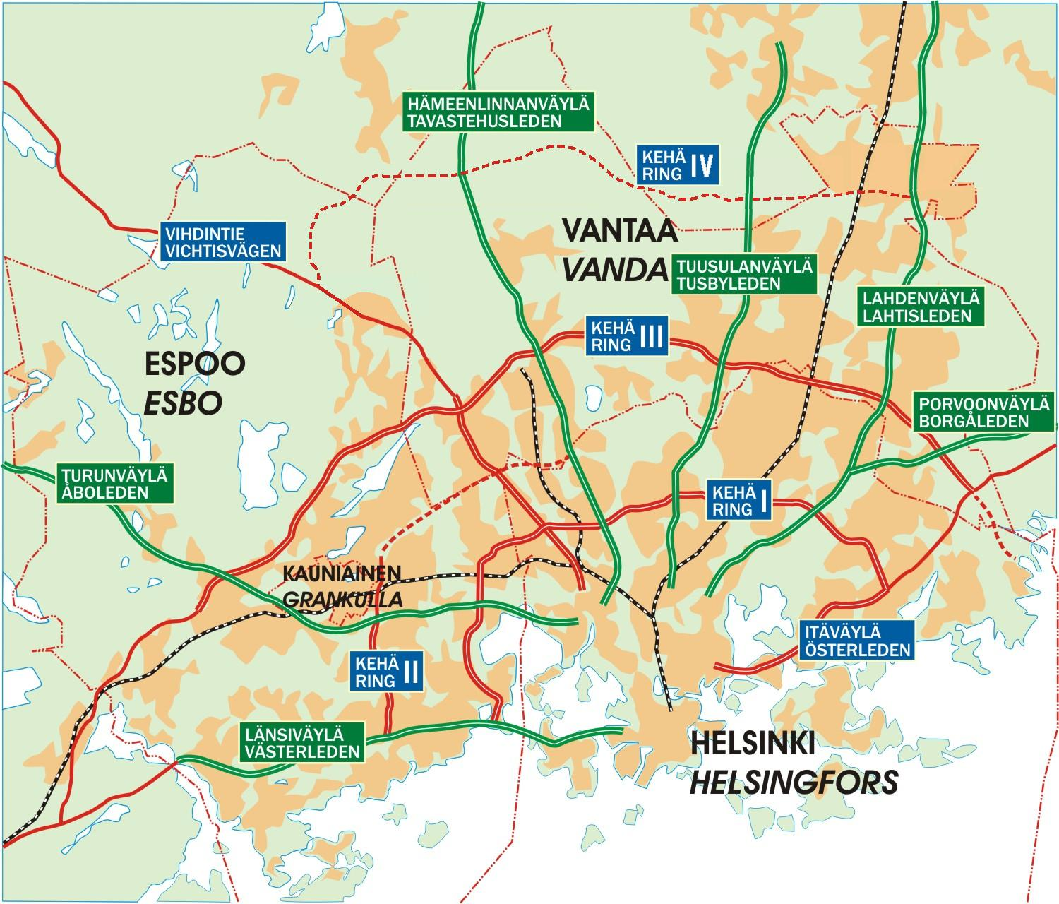 Map of the main roads in the Helsinki region